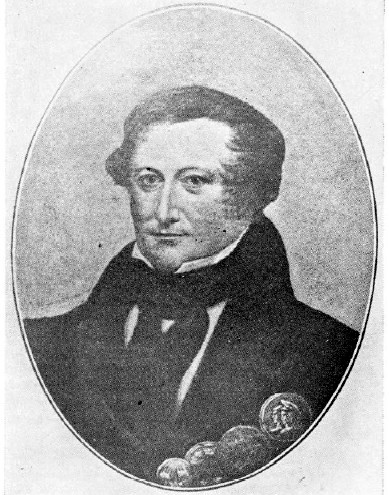 Picture of James Marsh, the chemist